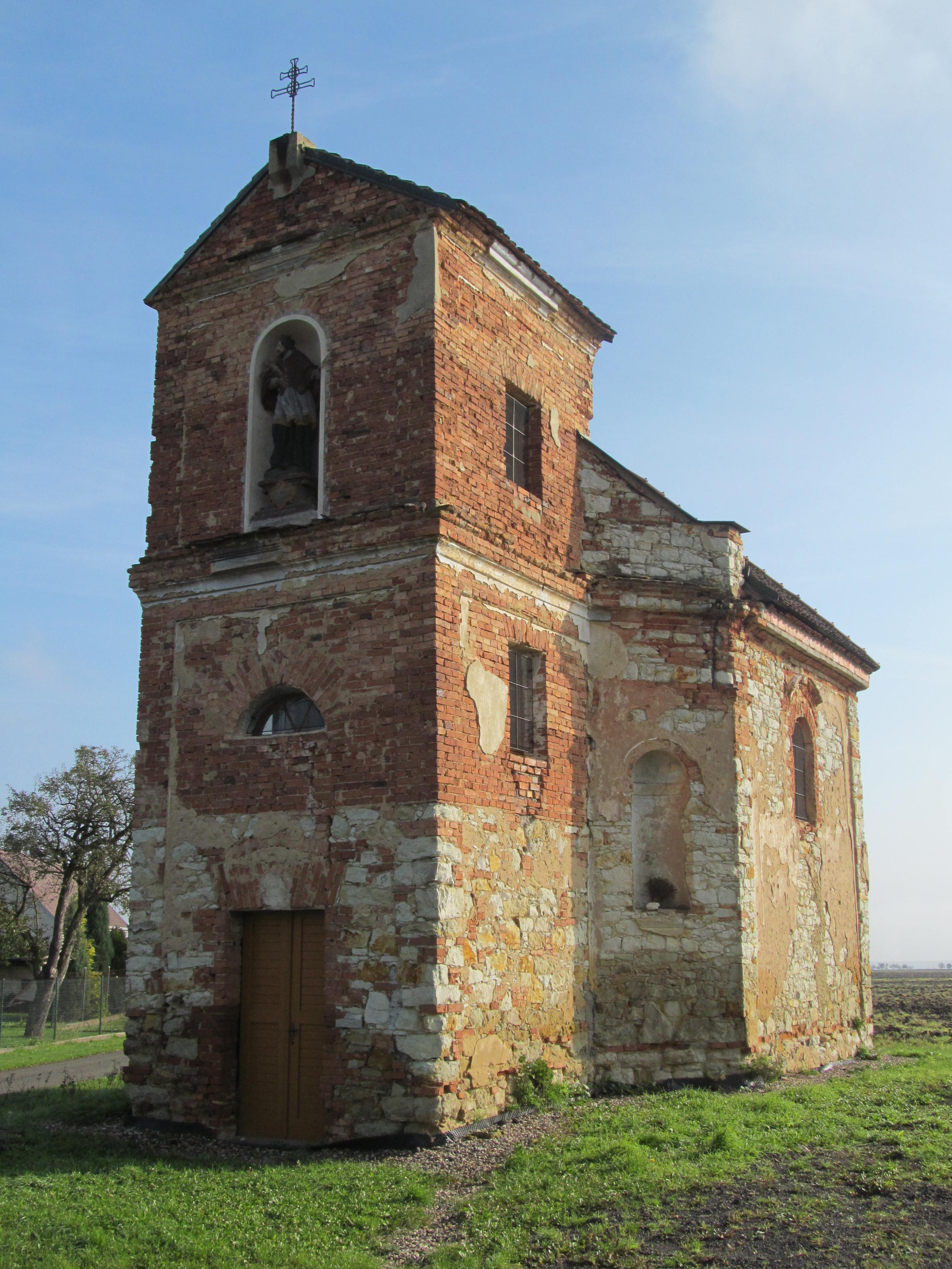 Church of Saint John of Nepomuk in Kličín from 1738. Statue on the tower from J. A. Dietz